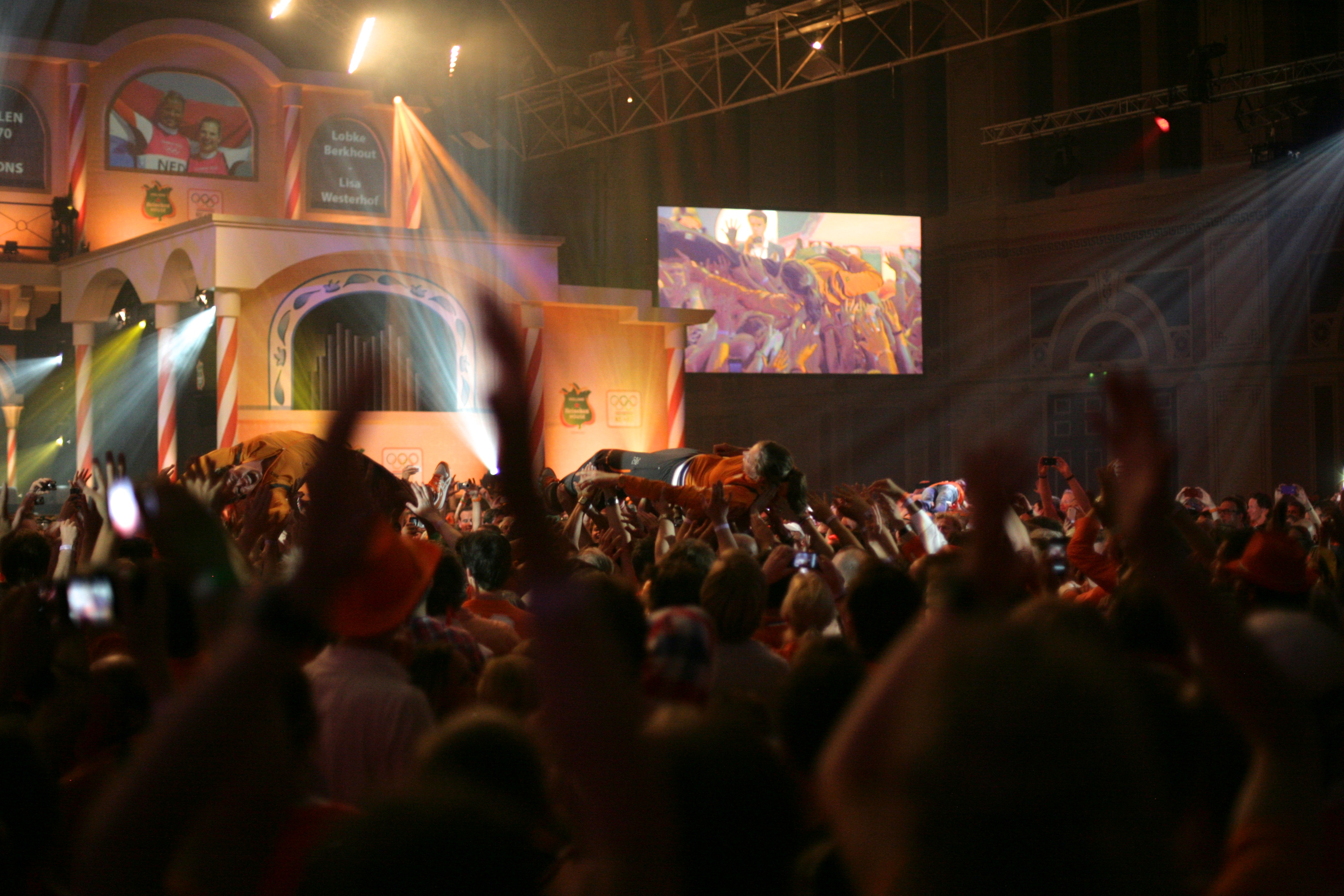 Lobke Berkhout & Lisa Westerhof crowdsurfing @ Holland Heineken House